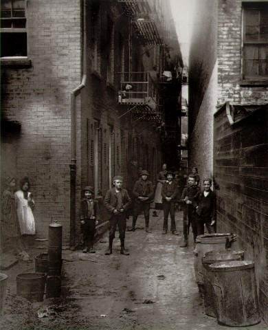 Mullen's Alley, New York